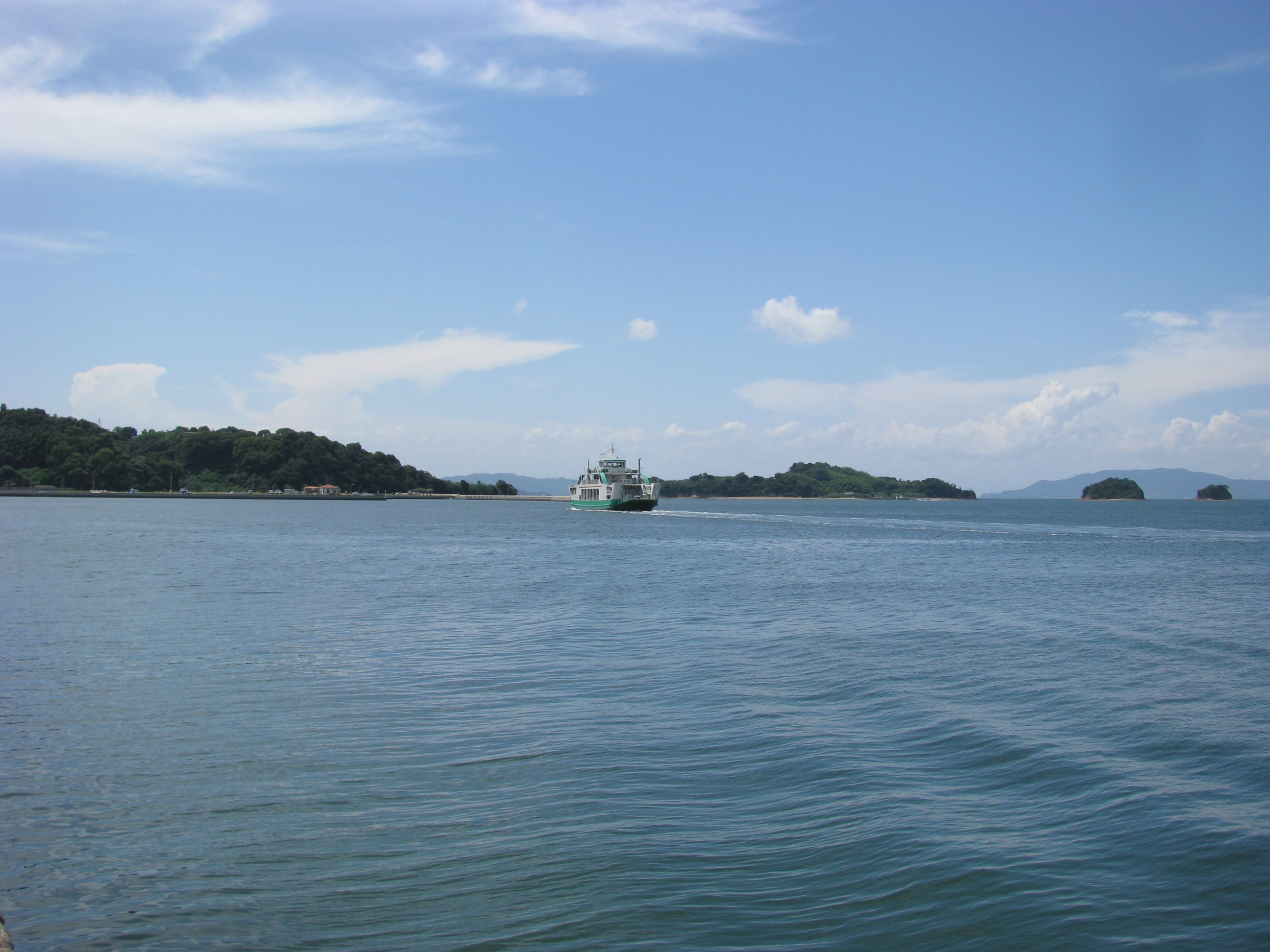 The Dai-7-Karakoto of Maejima-Ferrie. This place is Setouchi, Okayama Prefecture, Japan.